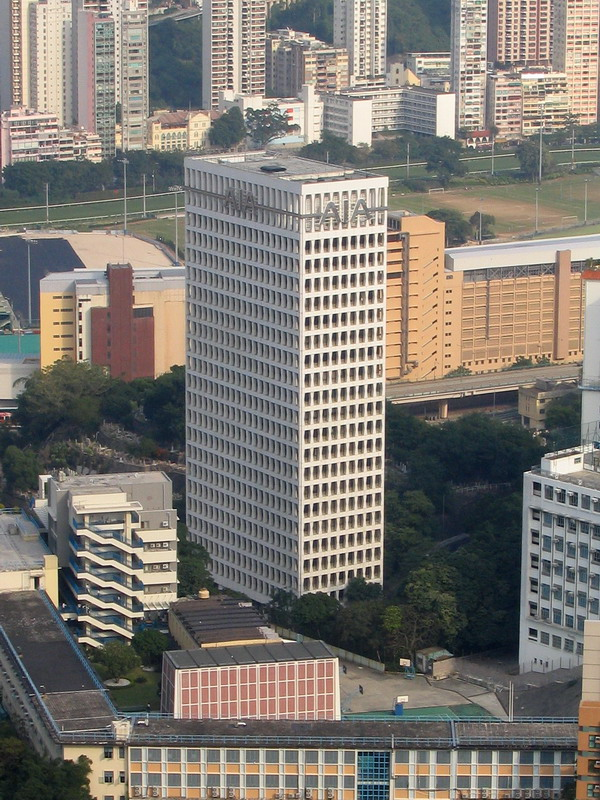 AIA Building, 1 Stubbs Road